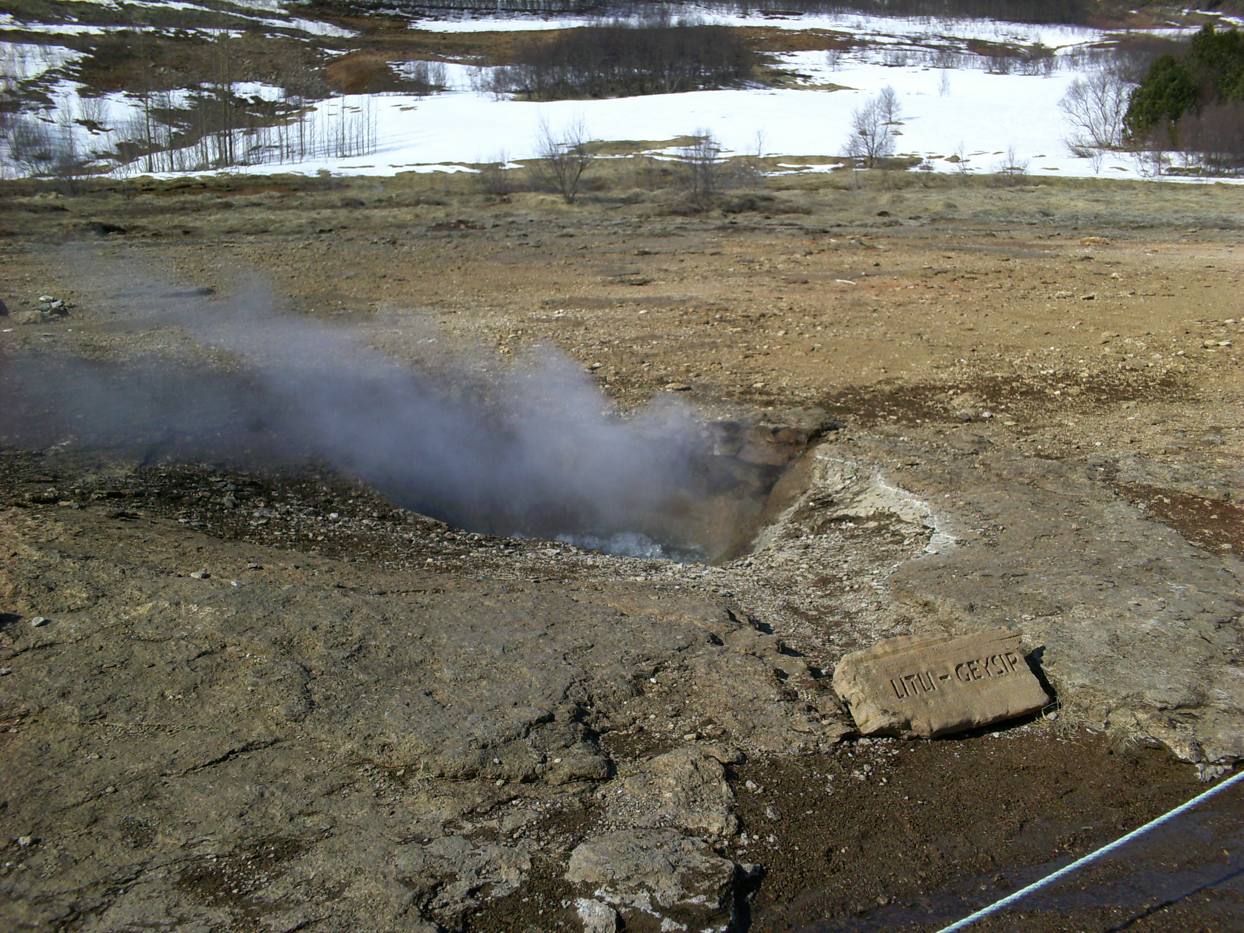 Little Geysir, Iceland